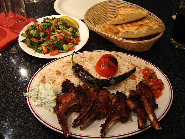 Pirzola (lamb chops) at the Solon Café, Stoke Newington High Street, Hackney, London. 26 October 2005. Photographer: Fin Fahey